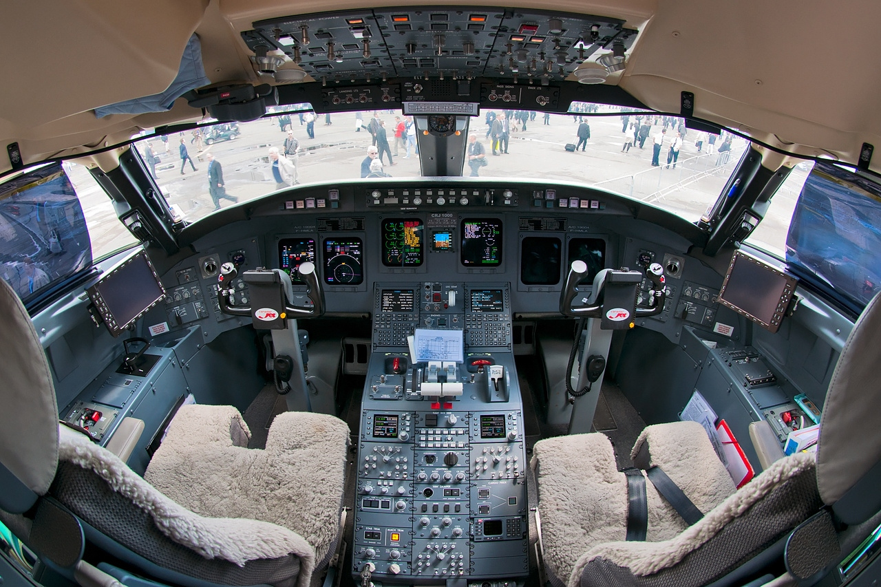 First cockpit Bombardier CRJ-1000 NG in DB.